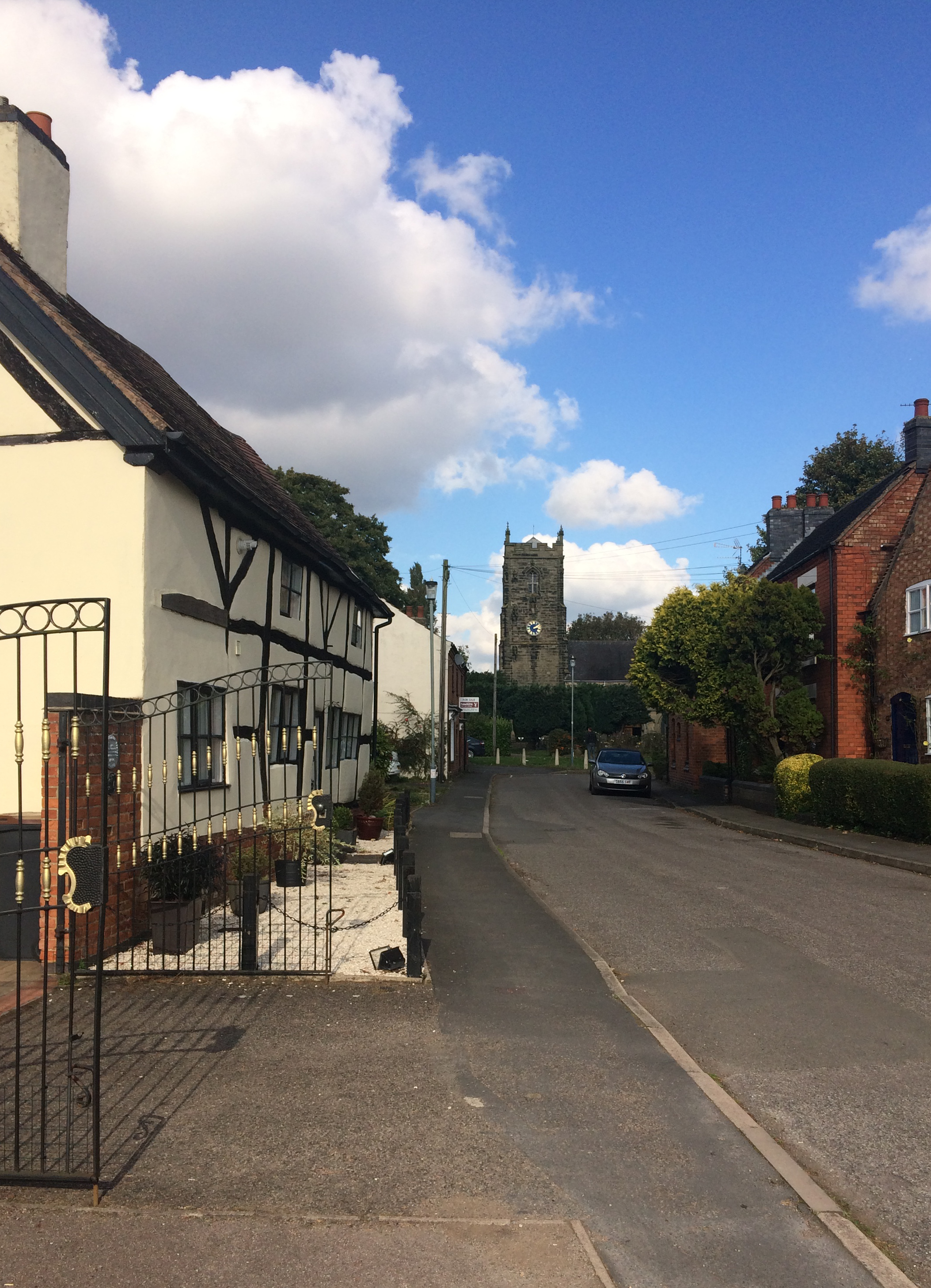 View north along Church Street, Bulkington, Warwickshire. The timber-framed cottages on the left are 3 and 4 Church Street. At the end of the street is the west tower of St James' parish church.